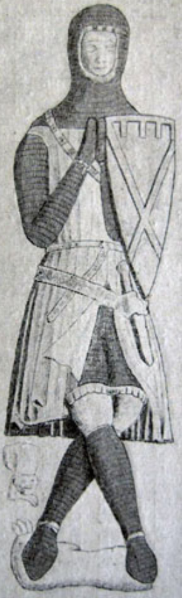 Drawing of effigy in St Brandon's Church, Brancepeth, County Durham, of Sir Robert Neville (d.1319) "Peacock of the North", eldest son and heir apparent of Ralph Neville, 1st Baron Neville (1262-1331) of Raby Castle by his wife Euphemia de Clavering. He predeceased his father. In style of a cross-legged crusader. On his shield he displays the arms of Neville: Gules, a saltire argent with a label of three points for the differnce of an eldest son.